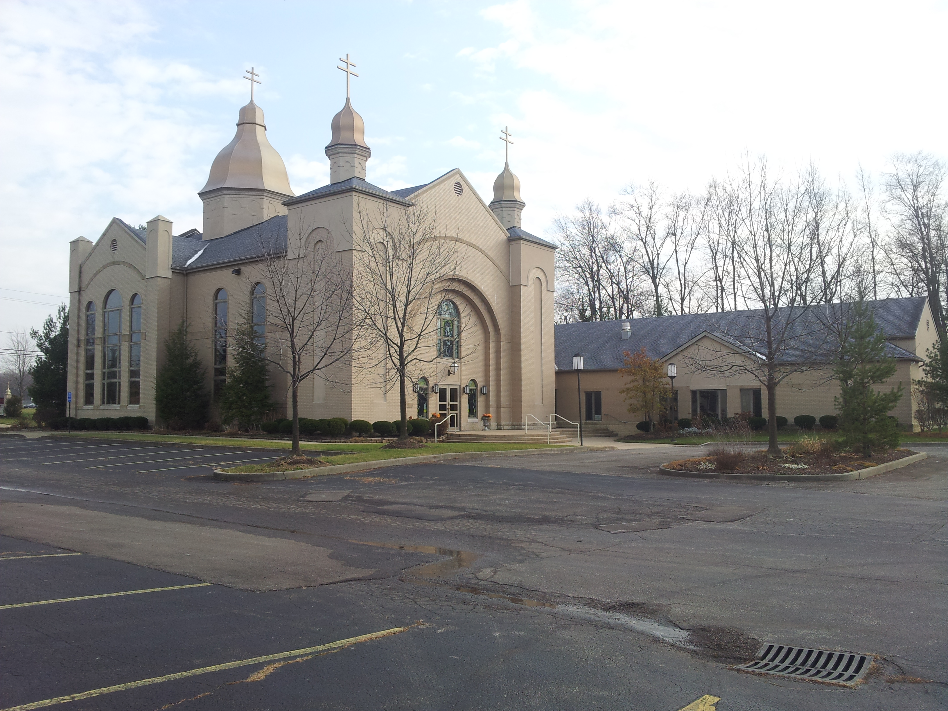 Mother of God Zyrovichy church 11064 Webster Rd, Strongsville, OH, USA 41.331028, -81.801525